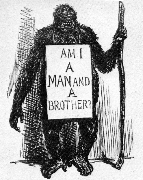 Evolution cartoon (monkey with parody of early abolitionist "AM I NOT A MAN AND A BROTHER?" slogan).